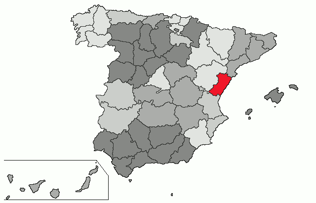 Province of Castellón Based in Image:ProvPont.jpg Source: Designed by Leoplus. Original picture, designed by Sobreira.